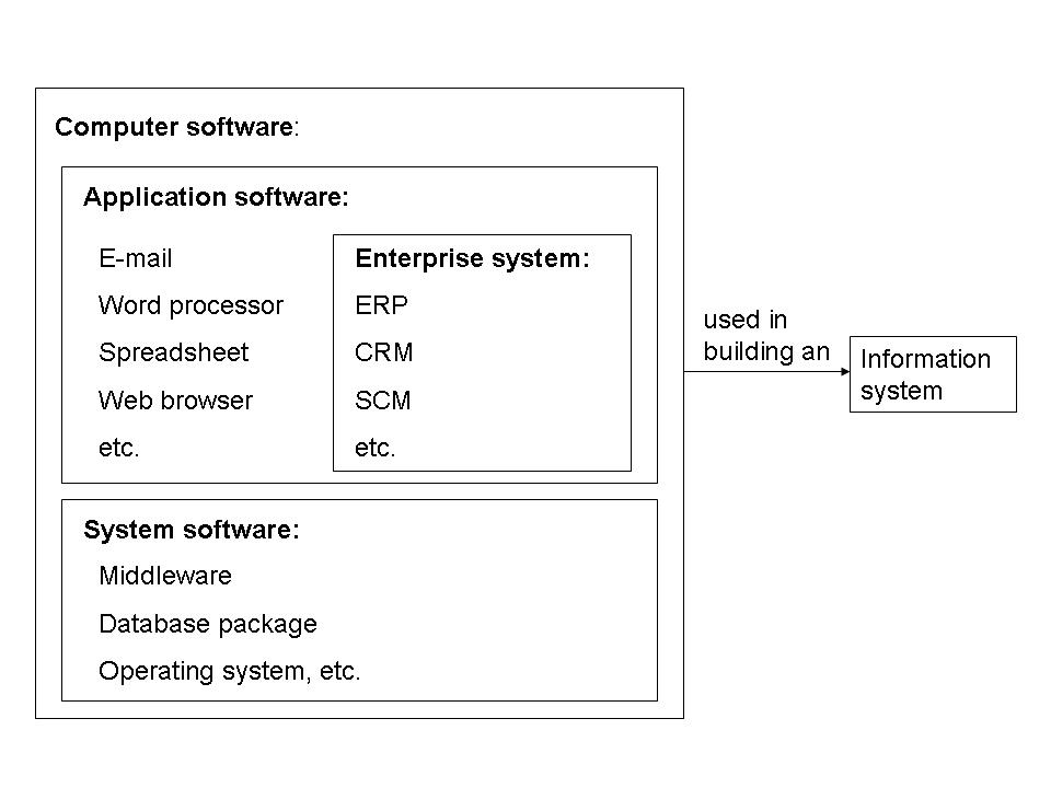 Relationship between Enterprise Systems software, application software, computer software, and an information system